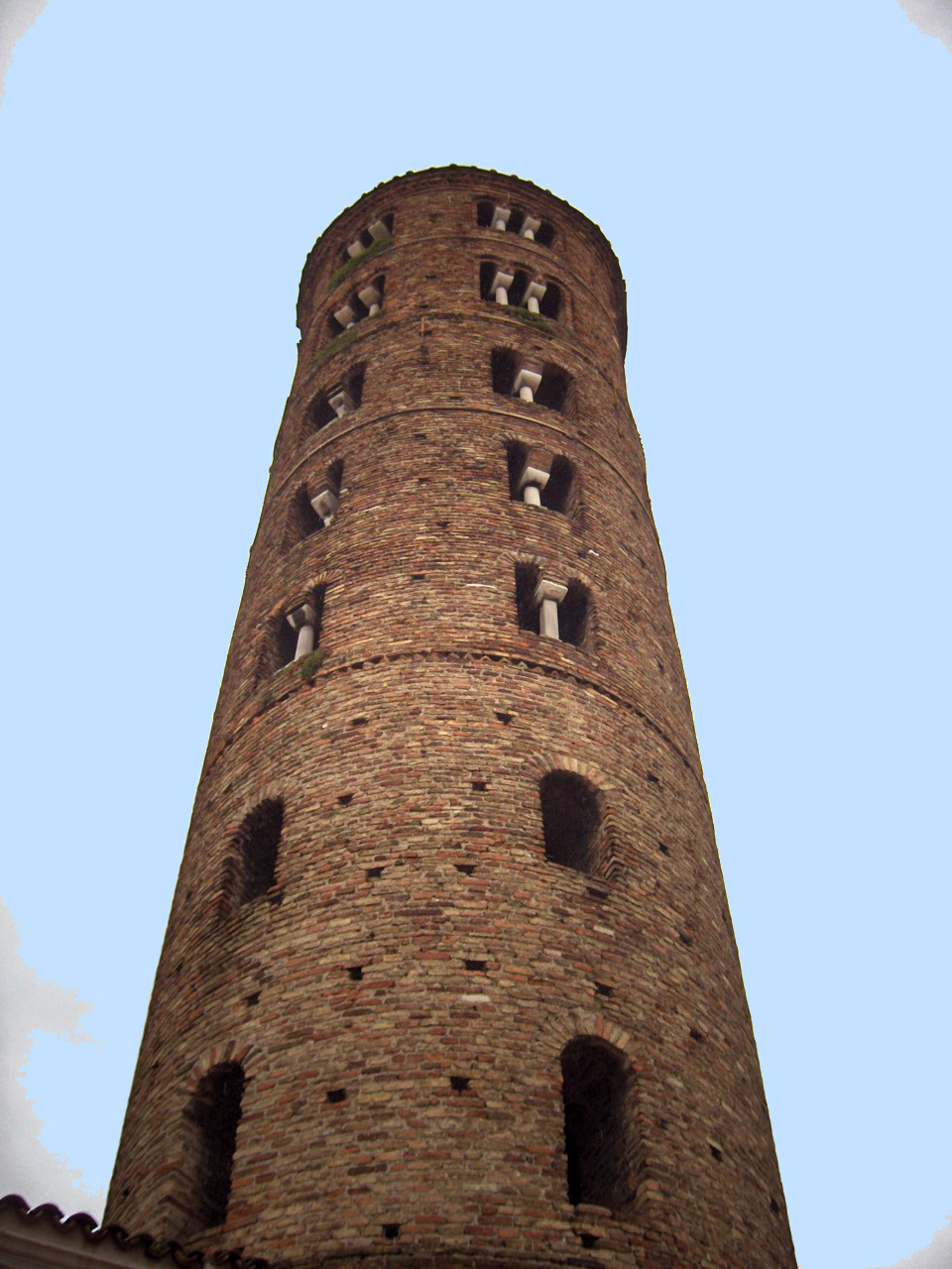 Church tower of the Basilica of Sant'Apollinare Nuovo in Ravenna, Italy.